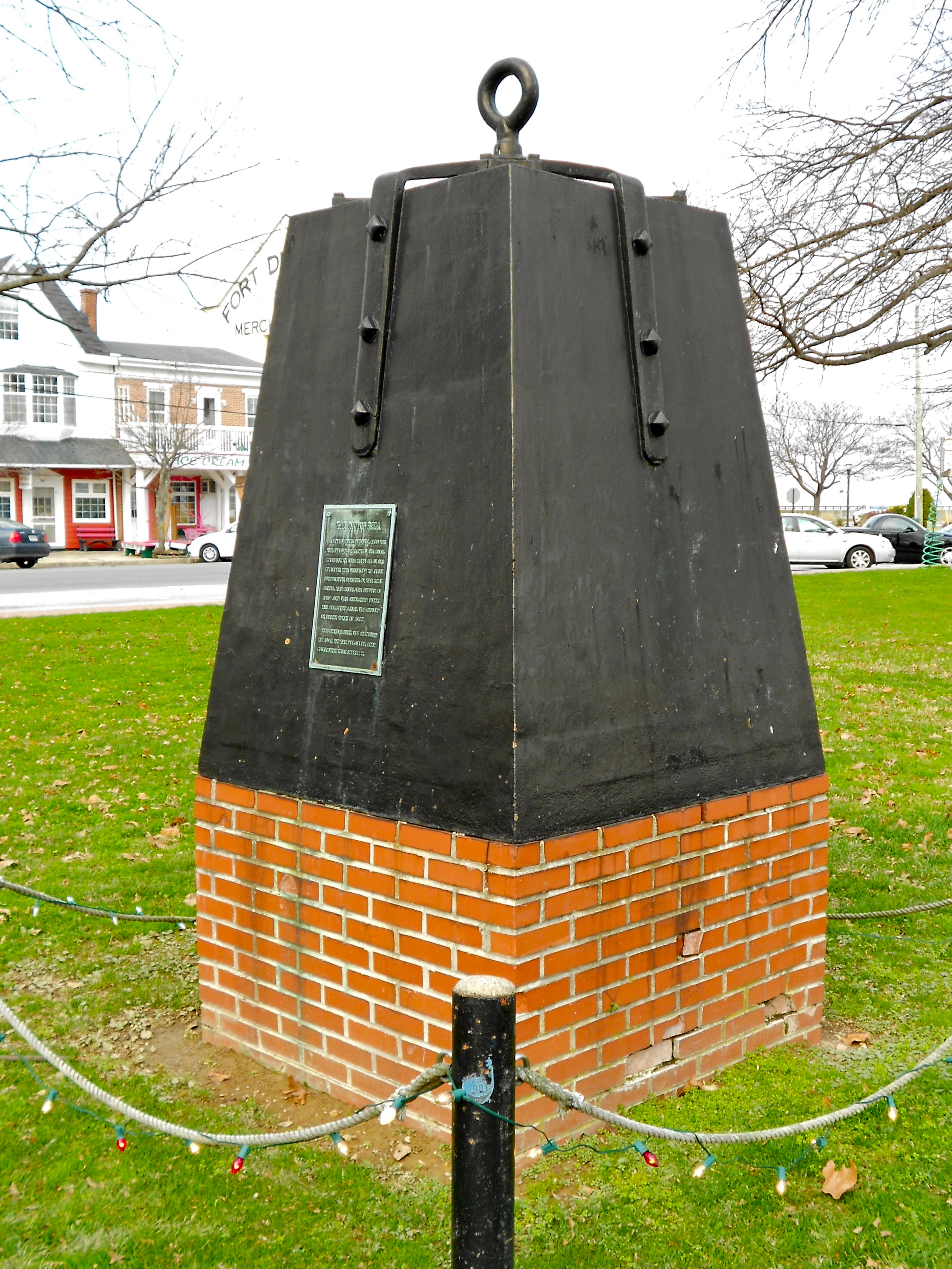 Old diving bell, used in the repair of the Chesapeake and Delaware Canal, on display near the Eastern Lock of the C&D. Used in the mid 19th century.